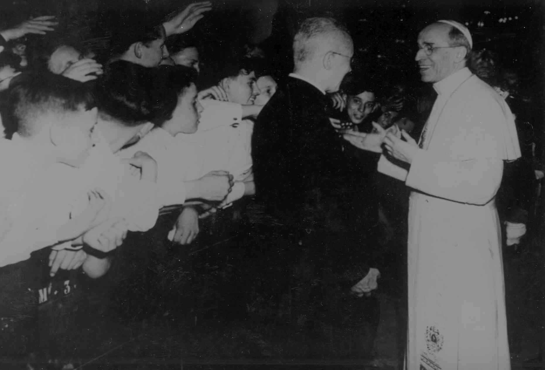 Picture taken during a general audience in St. Peter Basilica. Pope Pius XII greets pilgrims